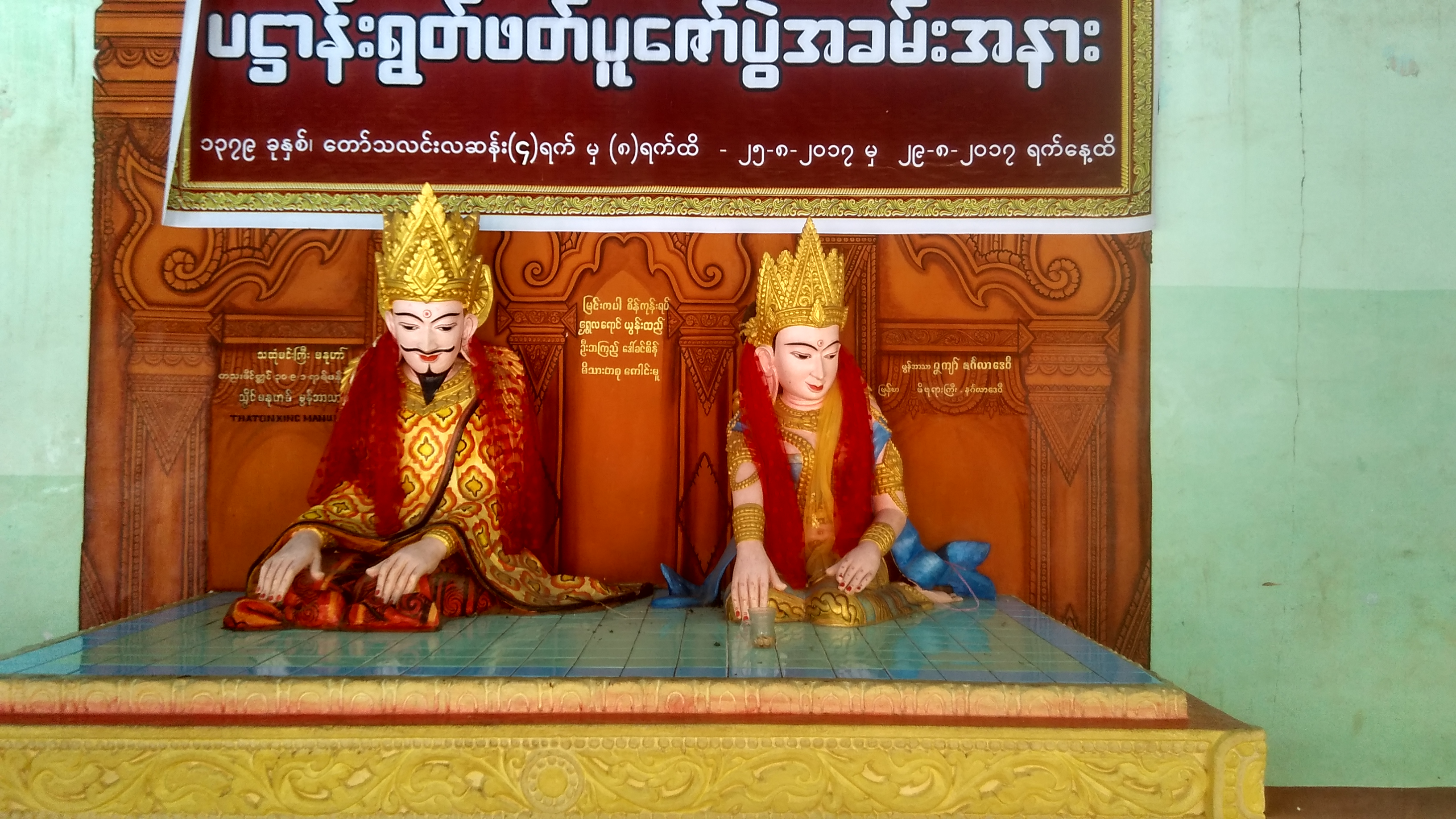 Manuha and wife မြန်မာဘာသာ: မနူဟာမင်းနှင့် မိဖုရား ဖြစ်သည်။ မန္တလေးတိုင်းဒေသကြီး၊ ပုဂံ၊ မနူဟာဘုရားတွင် တည်ရှိသည်။